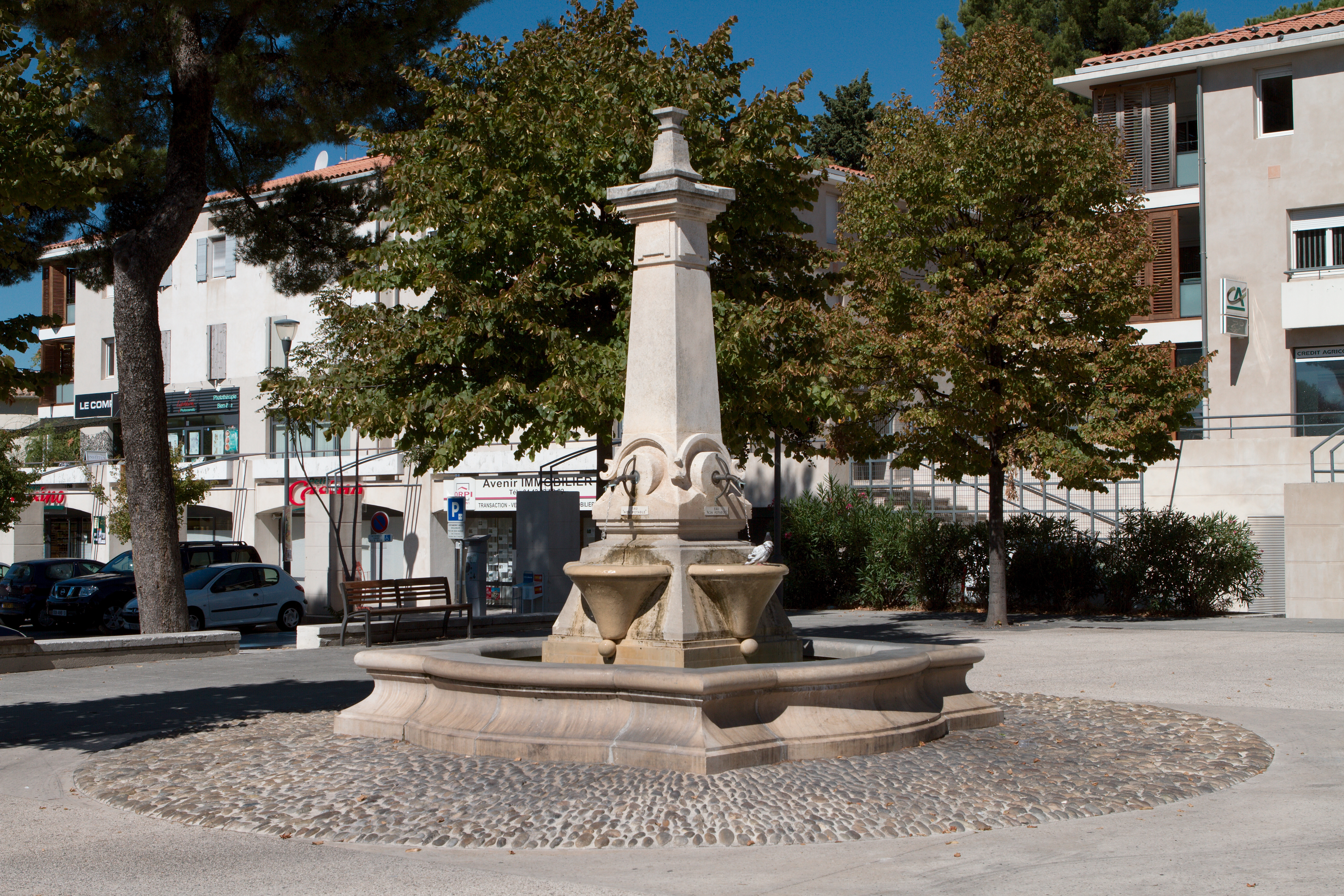 A fountain in Bouc-Bel-Air, Bouches-du-Rhône (France).